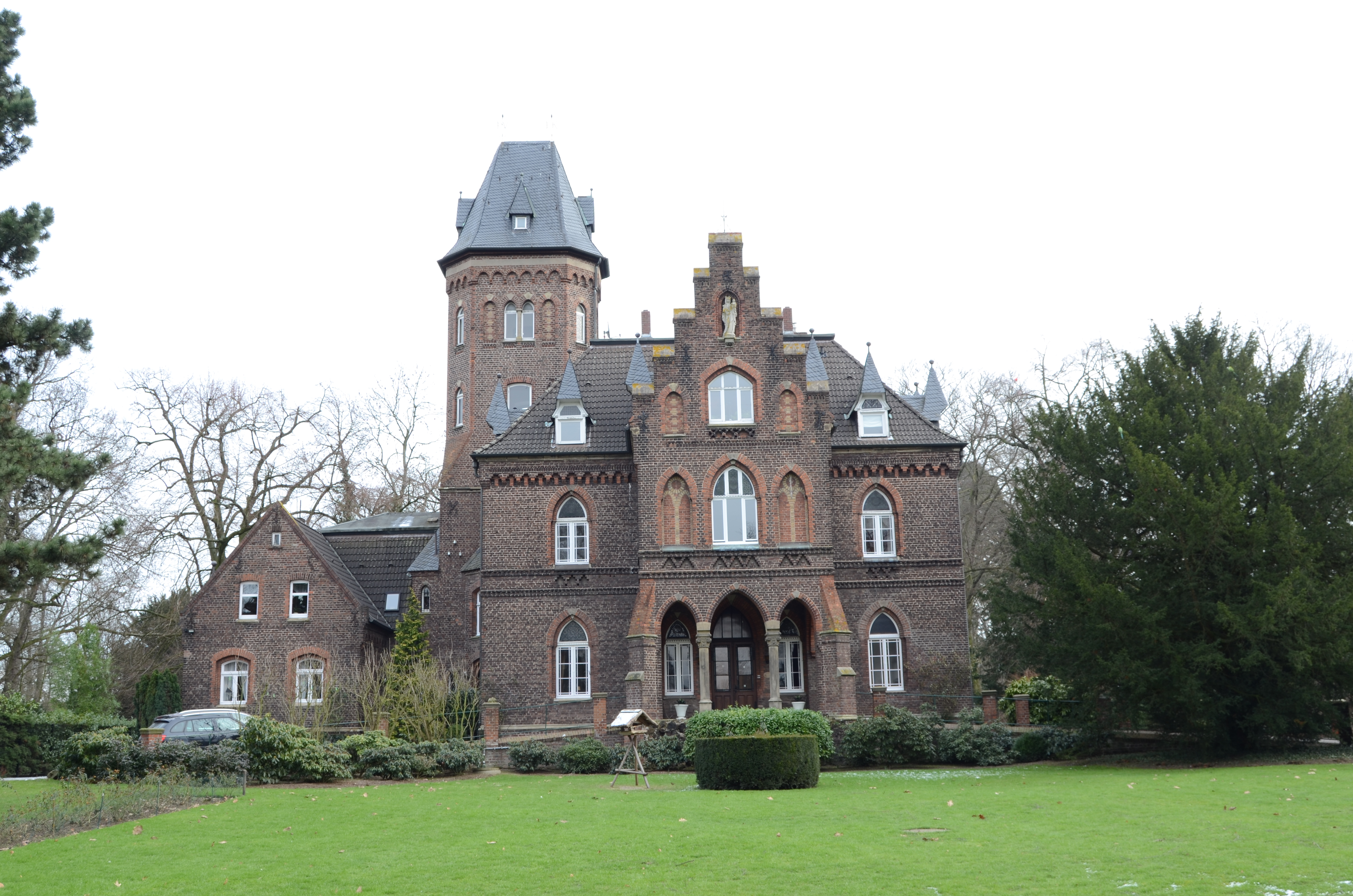 Monheim am Rhein (North Rhine-Westphalia, Germany) – castle Marienburg – western facade This image shows a heritage building in Germany, located in the North Rhine-Westphalian city Monheim am Rhein. This photograph was taken with a Nikon D7000